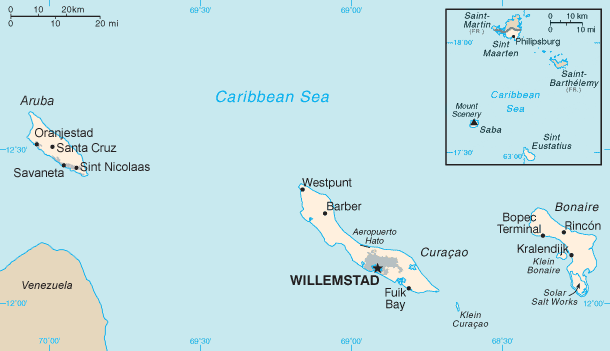 Map of the Netherlands Antilles before the secession of Aruba in 1986. For a map marking present-day capitals, see File:Dutch Caribbean map.png.